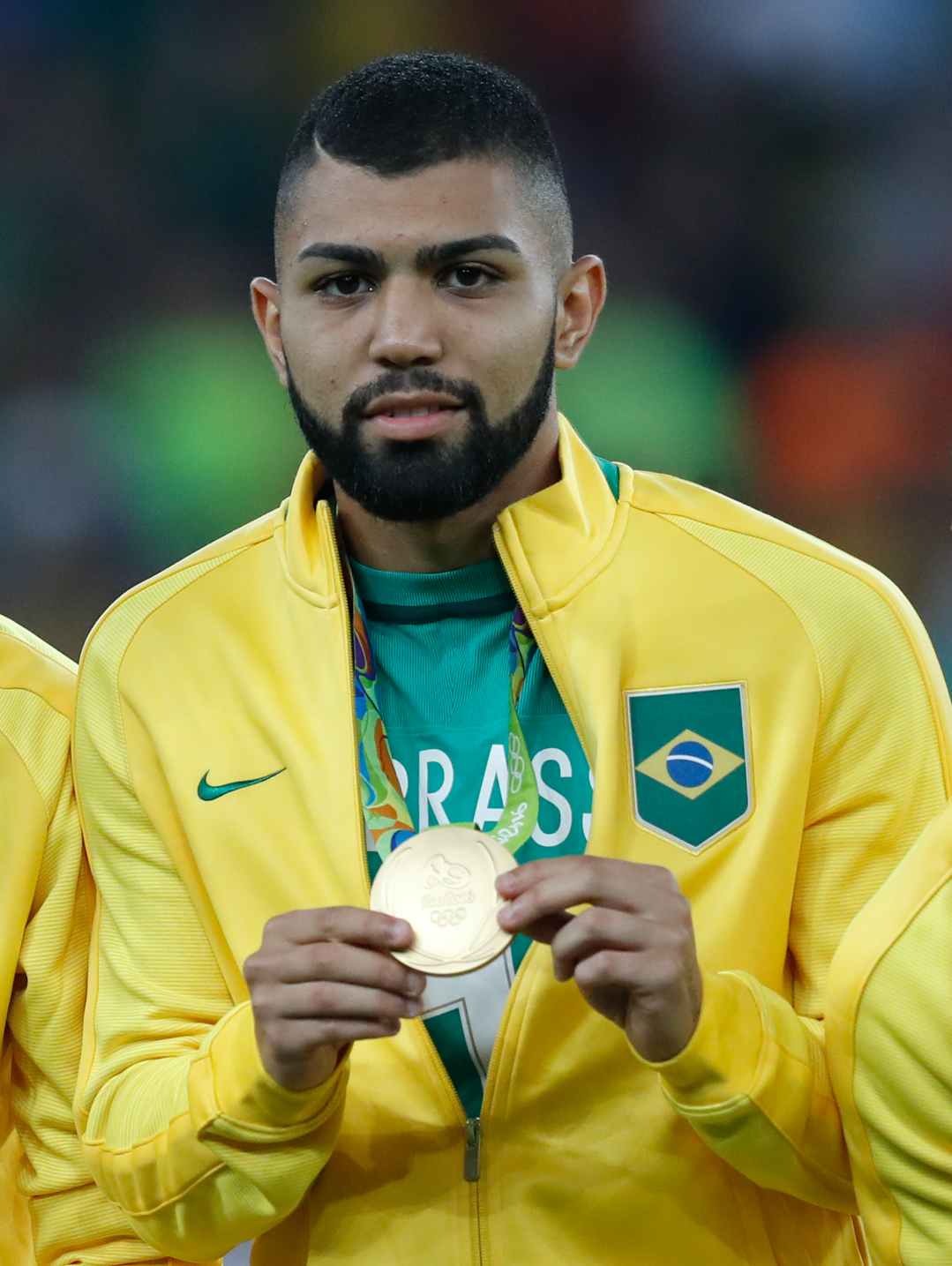 Rio de Janeiro - Brasil vence Alemanha e conquista primeiro ouro olímpico do futebol (Fernando Frazão/Agência Brasil)